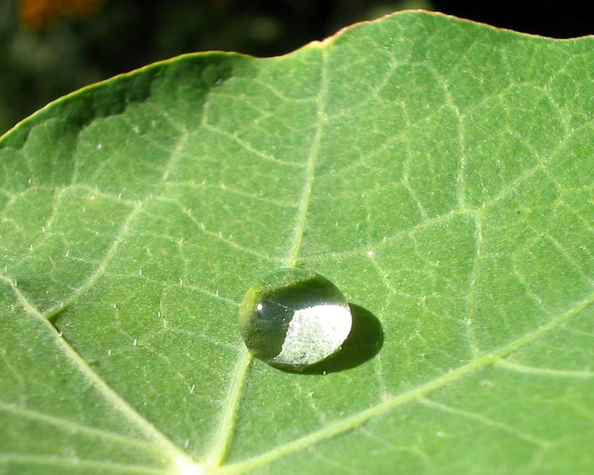 Description: Tropaeolum majus - Kapuzinerkresse: Lotuseffekt oben Source: selbst fotographiert Date: 5.Sep'05 17h Photographer: Michael Gasperl (Migas) Location: AUT/OÖ/Steyr